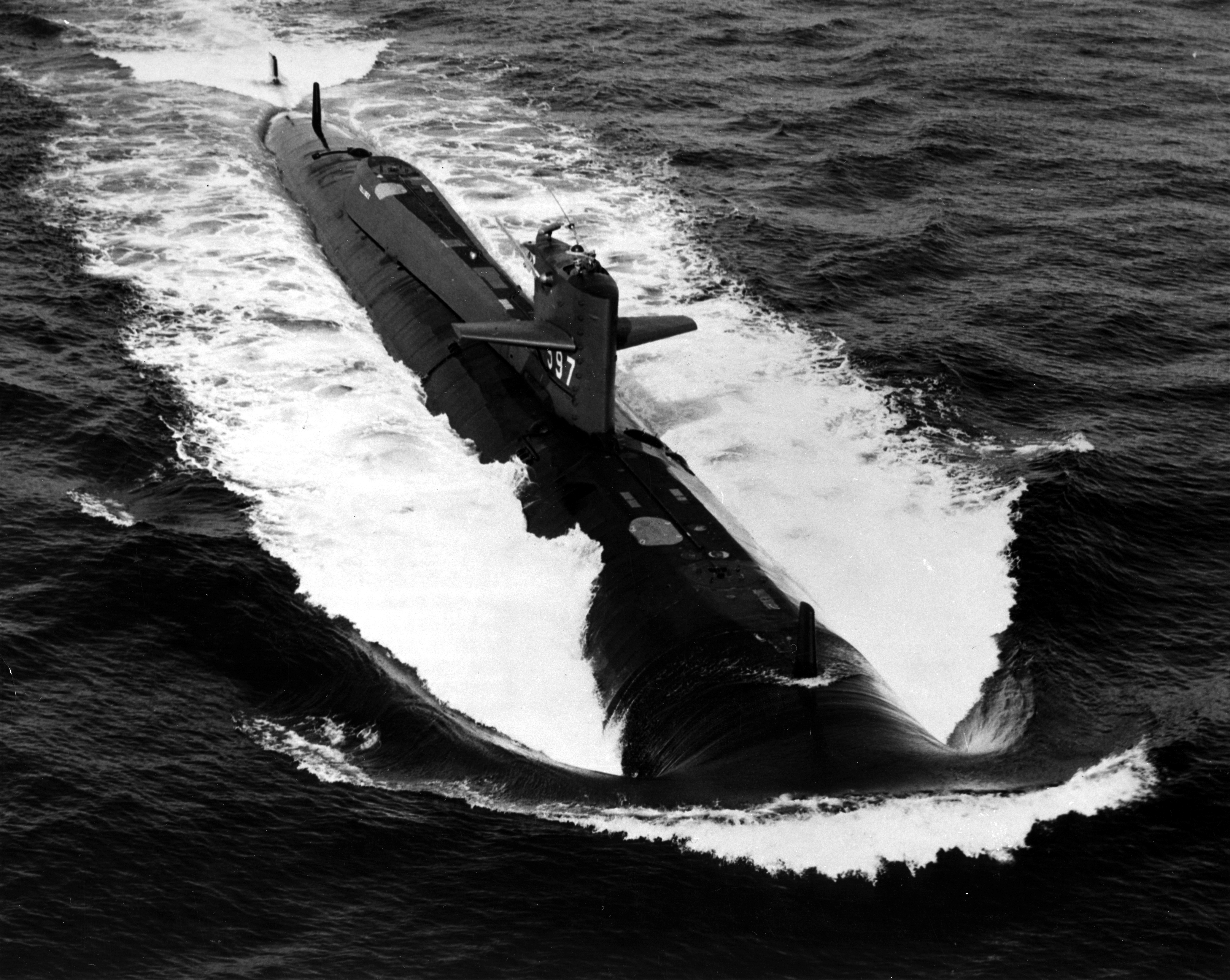 Aerial view of the U.S. Navy nuclear powered attack submarine USS Tullibee (SSN-597) underway during sea trials in Long Island Sound, circa in early October 1960. Note the vertical fore and aft dorsal fins, which contained sonar gear.